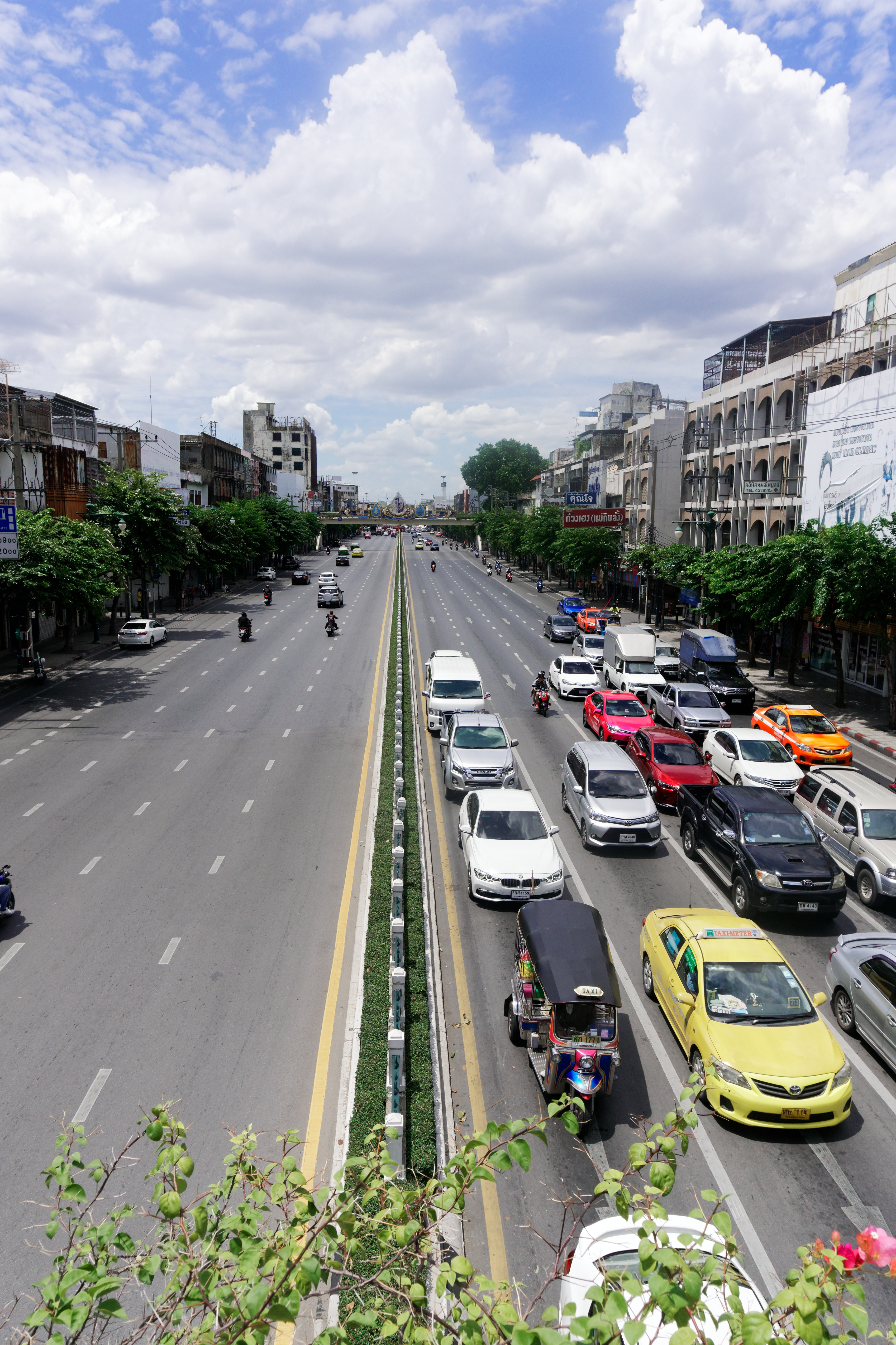 Prachathiphok rd. (View from King Taksin's statue roundabout)